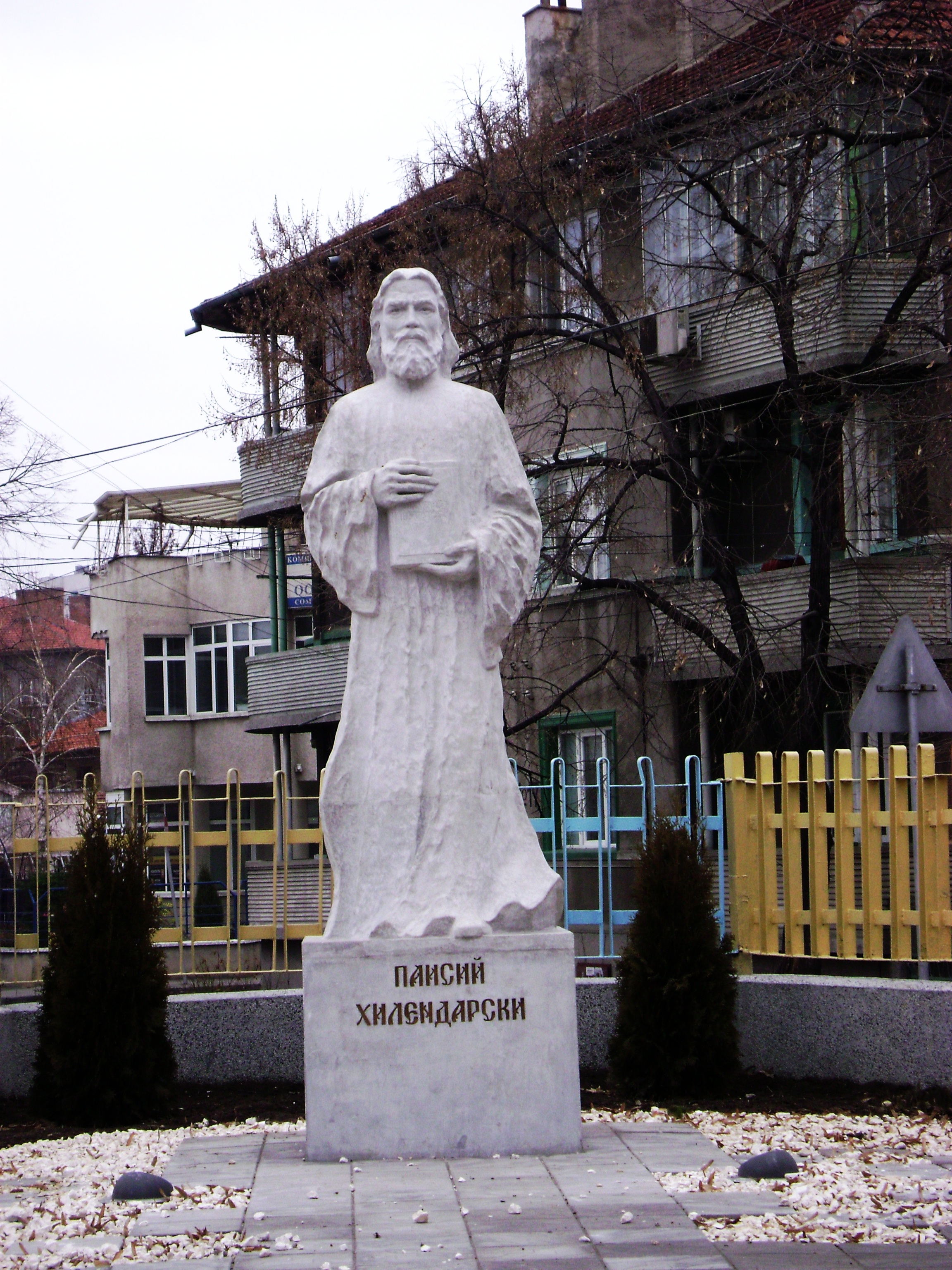 Monument of Paisiy Hilyandarsky